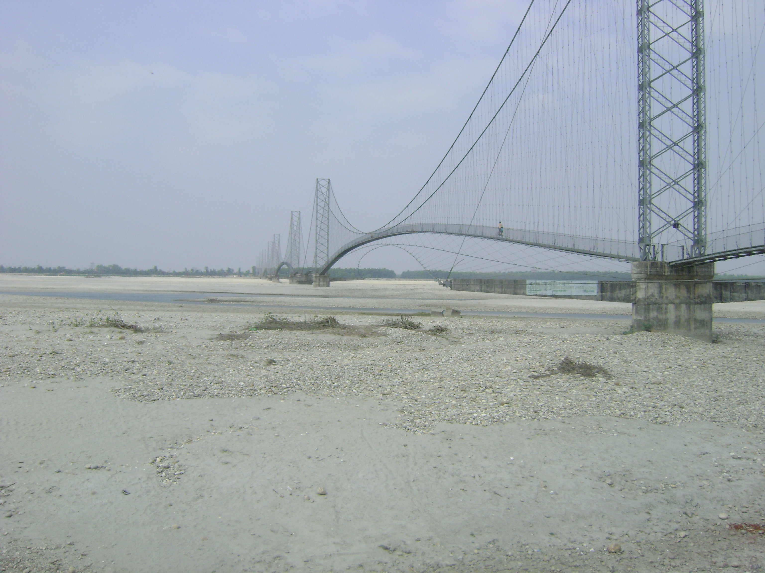 Chadani-Dodhara Bridge linking Chadani and Dodhara VDC of Nepal in Kanchanpur District, Nepal